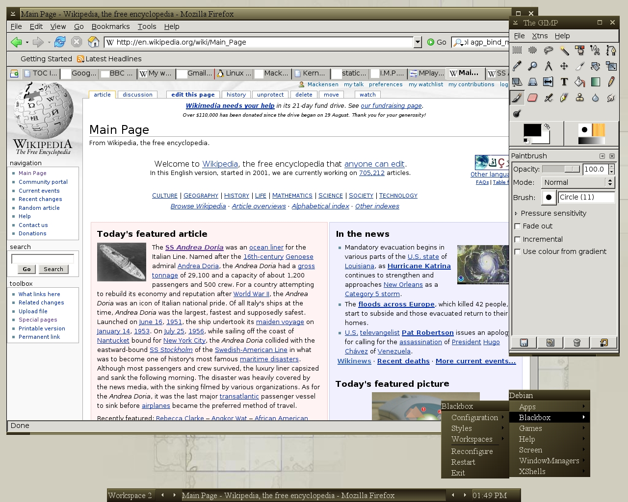 Screenshot of Blackbox. Also displayed in the screenshot are the GIMP image manipulator and the Firefox web browser displaying the English Wikipedia's Main Page.